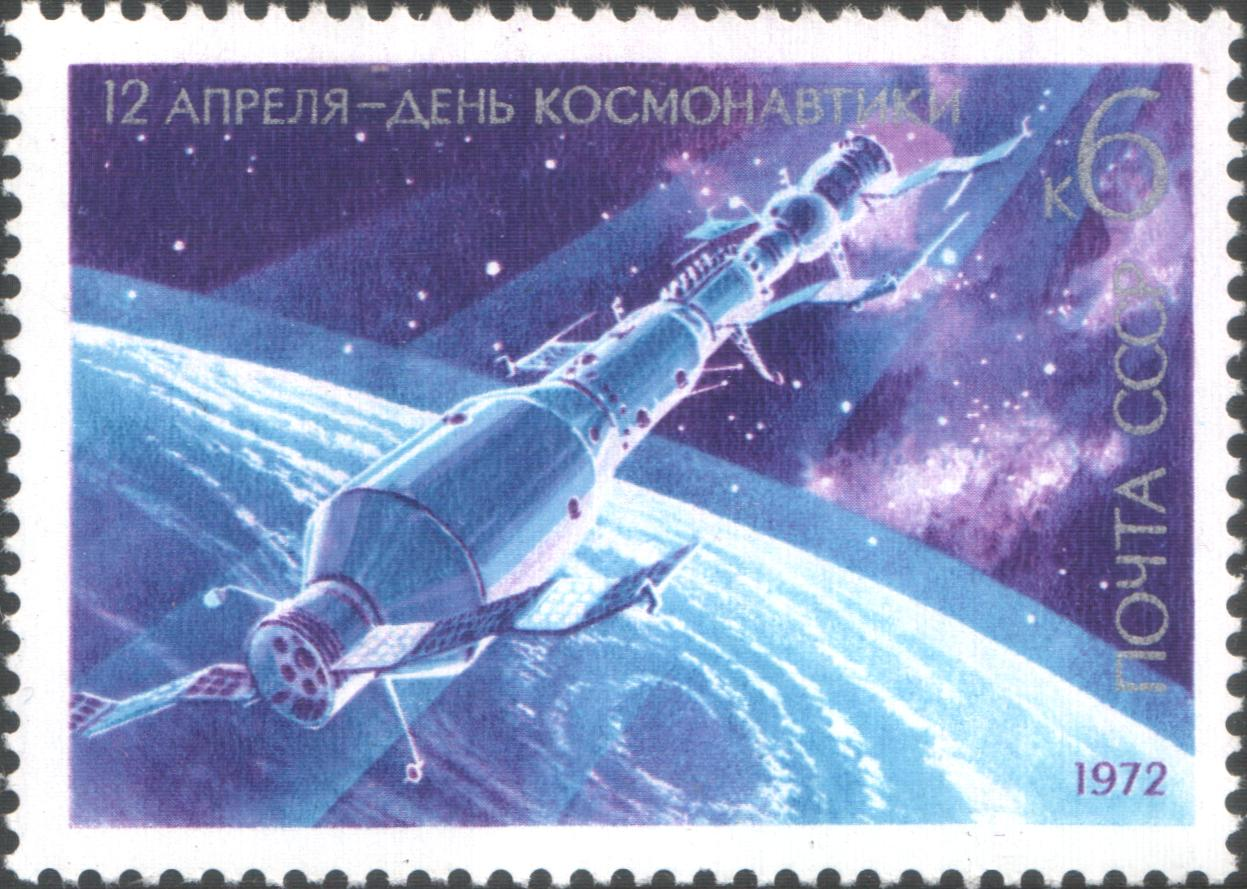 USSR stamp